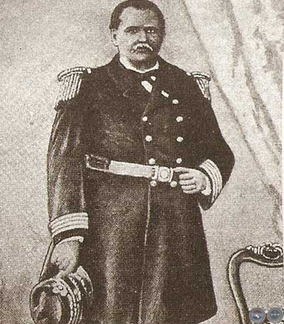 Commander of the Paraguayan Navy in the War of Paraguay (1865-1870)